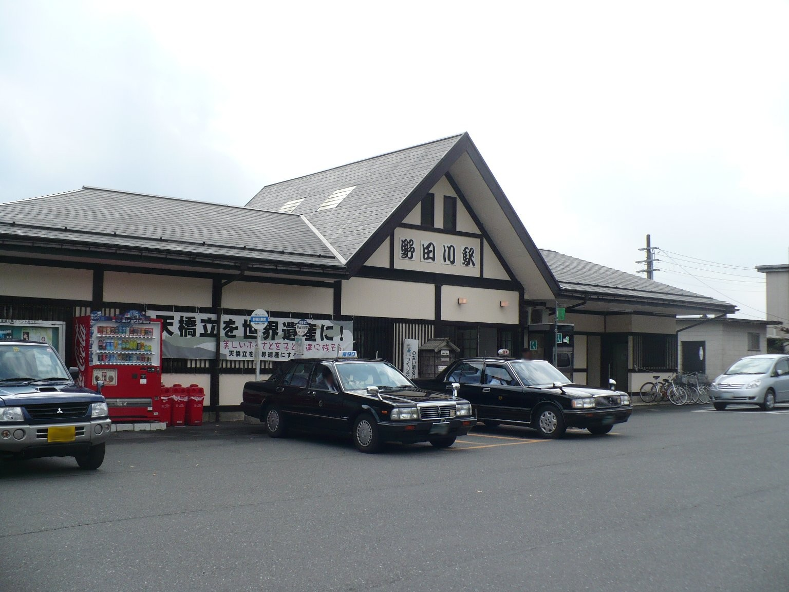 Nodagawa railway station of Kitakinki Tango Railway, Yosano, Kyoto, Japan.